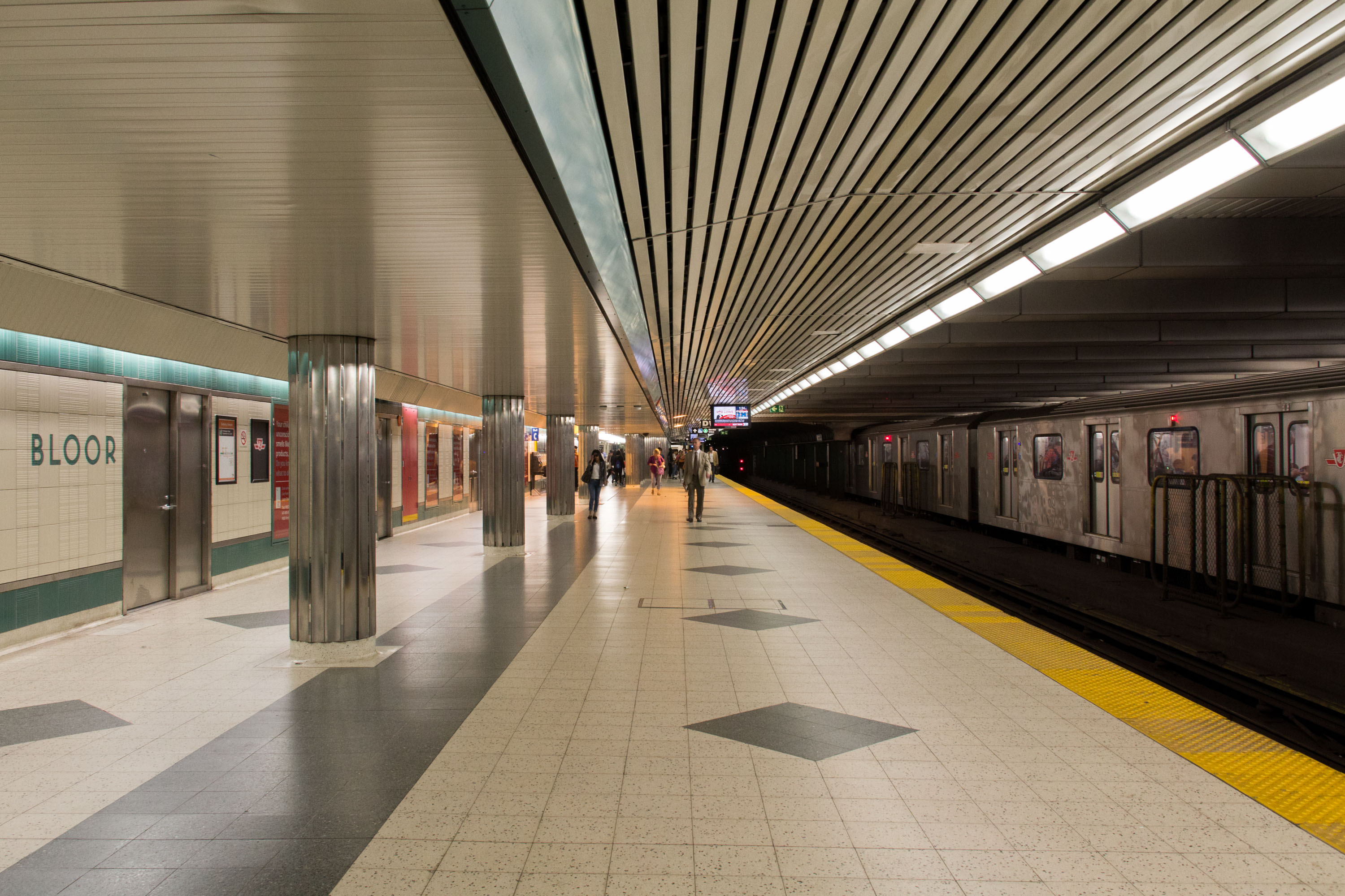 Bloor Platform on Line 1